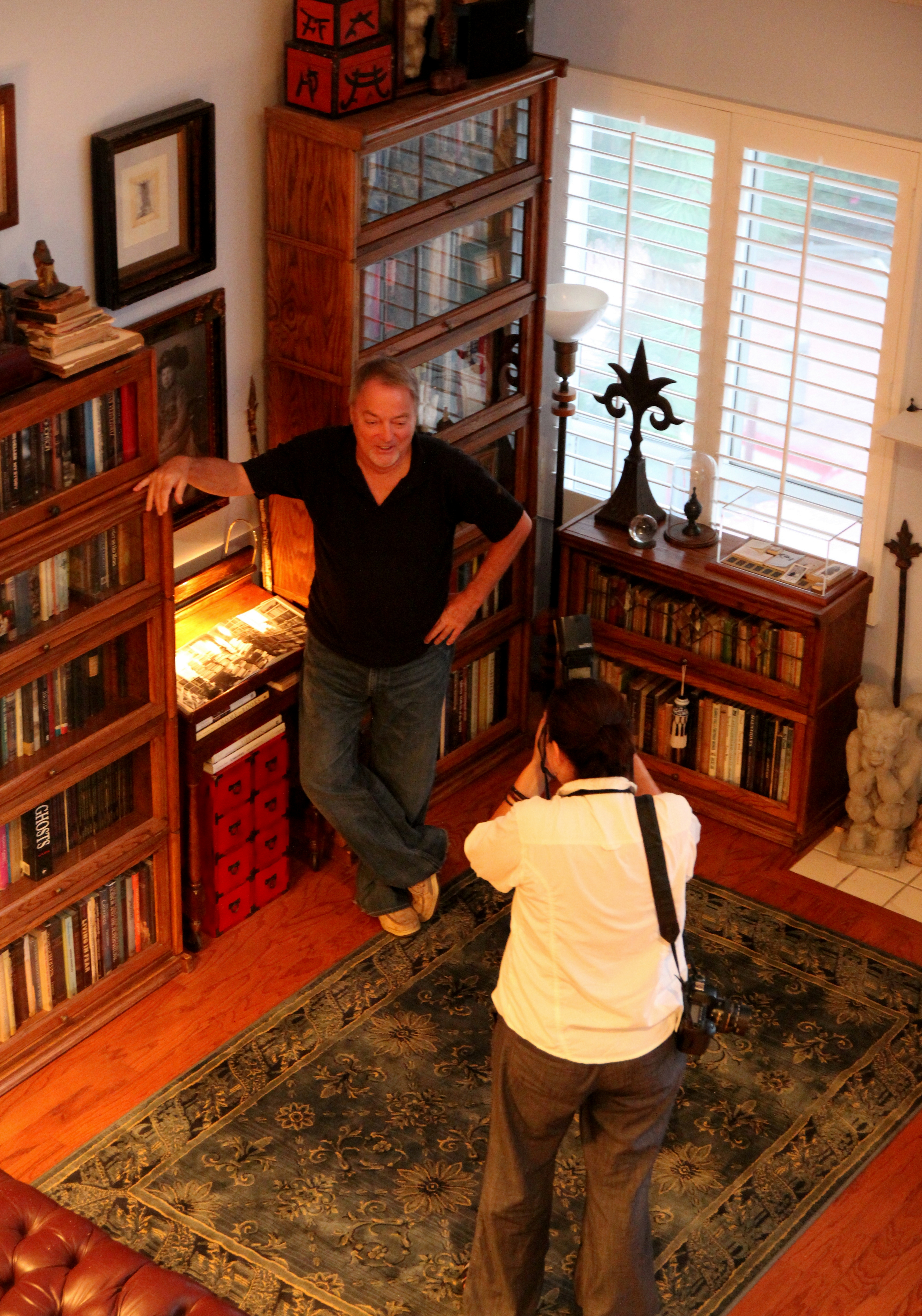 Photo shoot at the home of Mark Edward photo to appear in New York Times article about book Psychic Blues